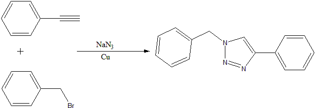 Mechanochemical reaction of phenylacetylen and benzylbromide